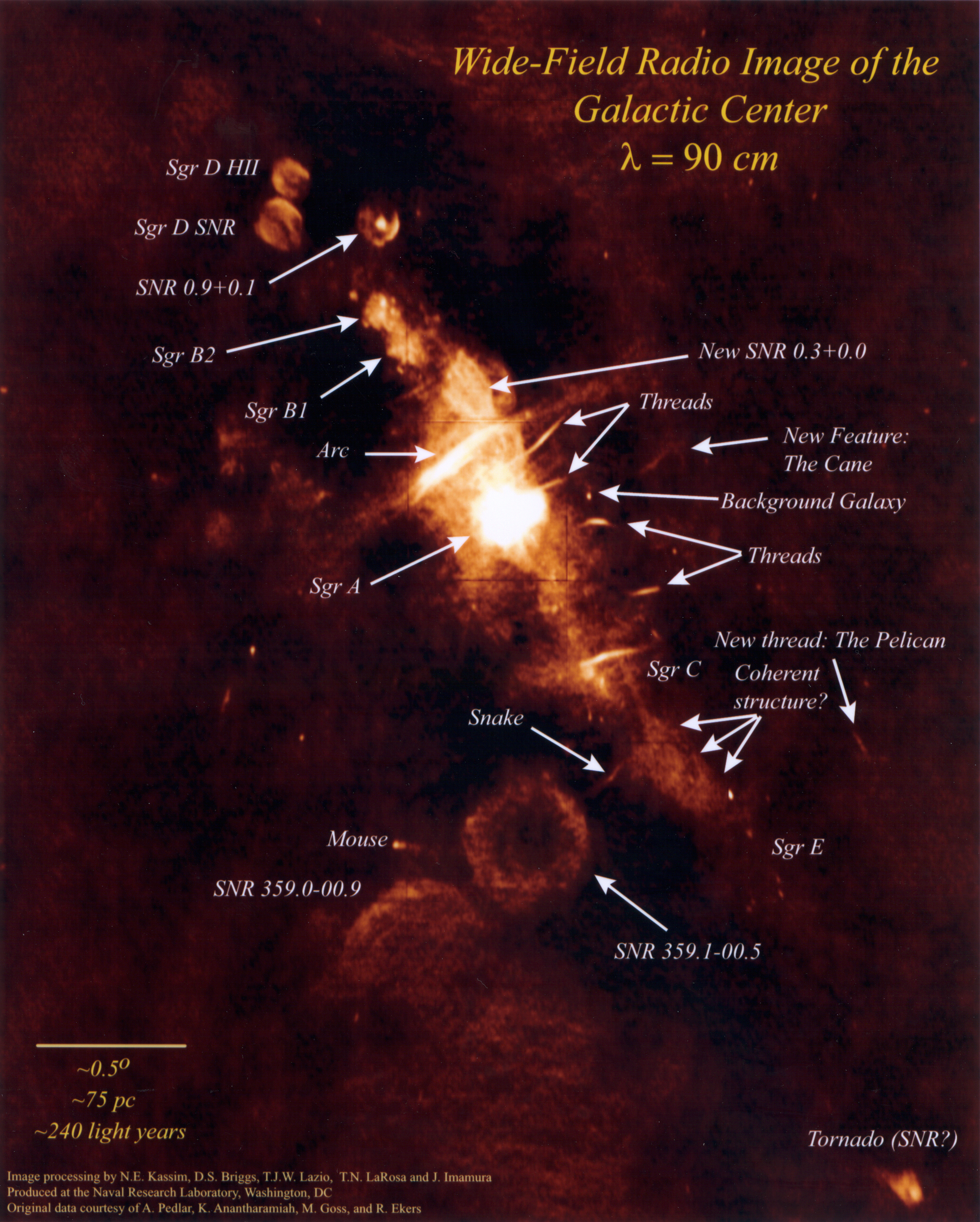 At approximately 2 degrees on a side (the full moon is about 1/2 degree across), or about 1000 light years at the distance of the center of the Milky Way, the image is shown in false color with brightness indicating areas of intense radio emission, and surrounding dark areas indicating less intense radio emission. (Dark lines near the center of the image are artifacts of the image processing.) The concentration of radio sources along a diagonal line through the image reveals the disk-like shape of the Milky Way viewed edge-on.